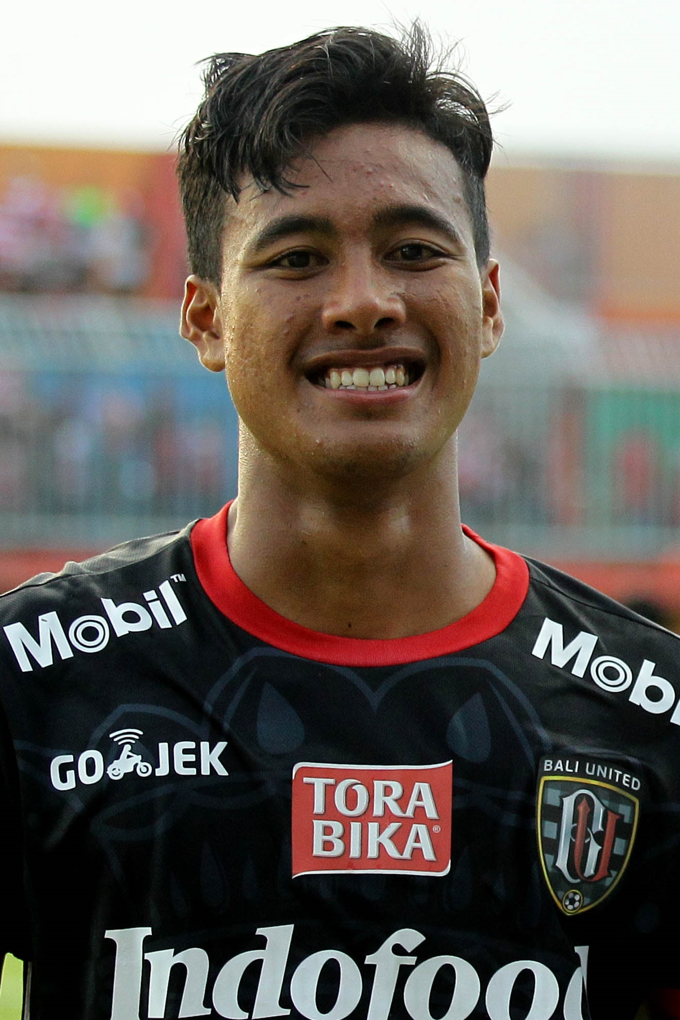 Laga home perdana GoJek Traveloka Liga 1 Madura United melawan Bali United Yang berakhir dengan skor 2-0 di Stadion Ratu Pamellingan Pamekasan, Jawa Timur, Minggu (16/04/2017) sore. Suci Rahayu